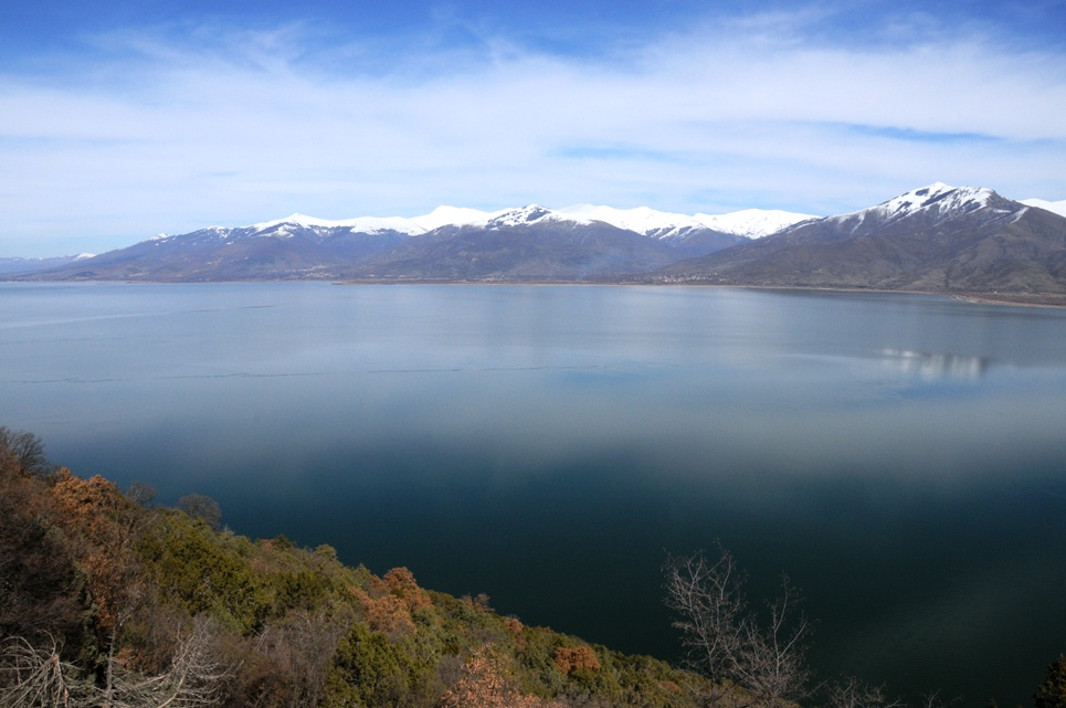 Big Prespa Lake with Macedonia in the background. Taken from Greece side